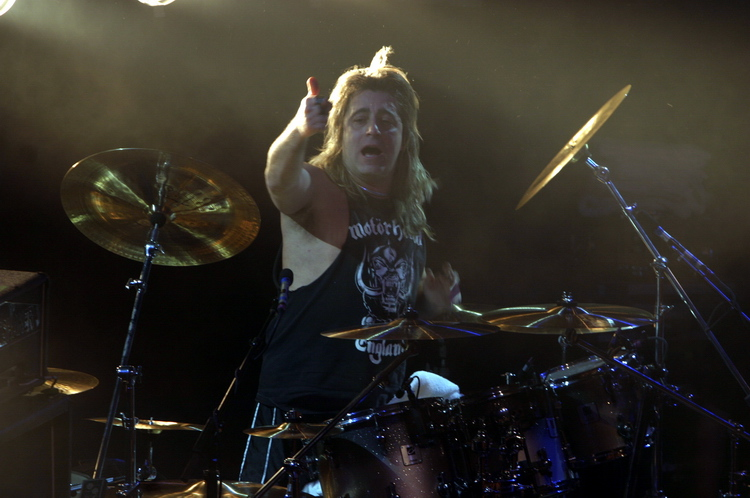 Mikkey Dee Live at Reds, Edmonton, May, 2005